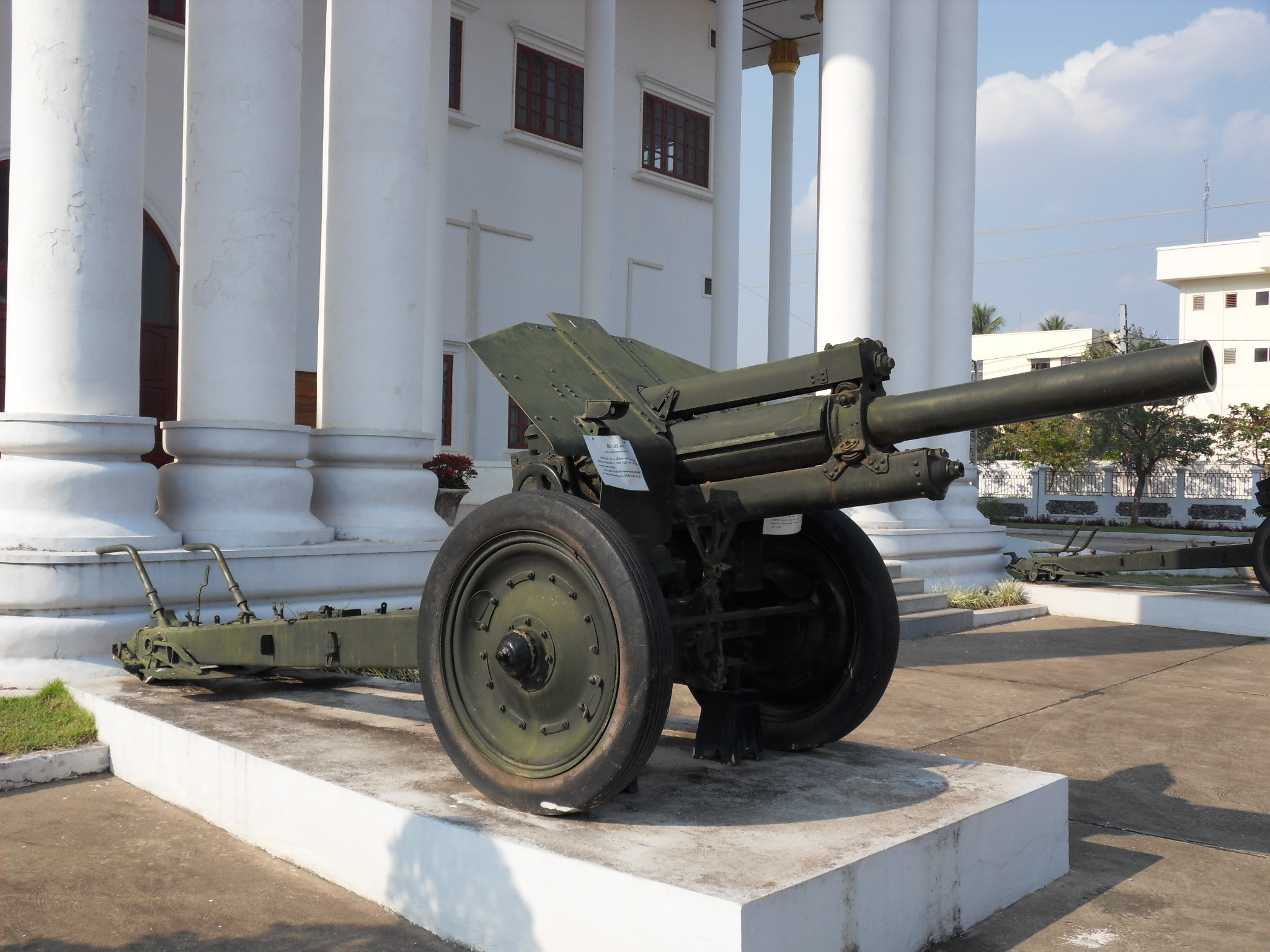 122-mm howitzer M1938 in Vientiane, Laos. This gun was used by Pathet Lao forces in 1968-1969 and 1971.